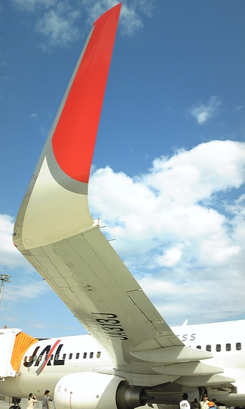 This is a picture of Boeing737-800"JA313J"'s left winglet.